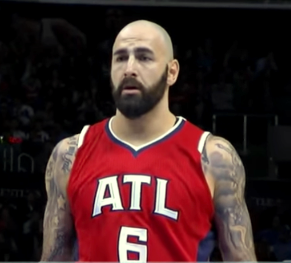 Pero Antic.